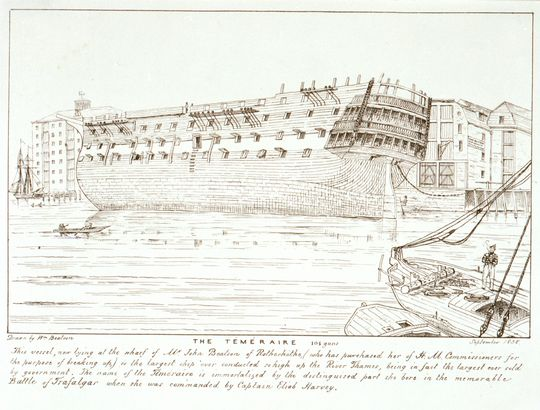 The Temeraire 104 guns. This vessel, now lying at The wharf of Mr John Beatson of Rotherhithe, (who has purchased her of H.M Commissioners for the purpose of breaking up) is their largest ship ever conducted so high up the River Thames, being in fact the largest ever sold by Government. The name of the Temeraire is immortalized by the distinguished part she bore in the memorable Battle of Trafalgar when she was commanded by Captain Elias Harvey